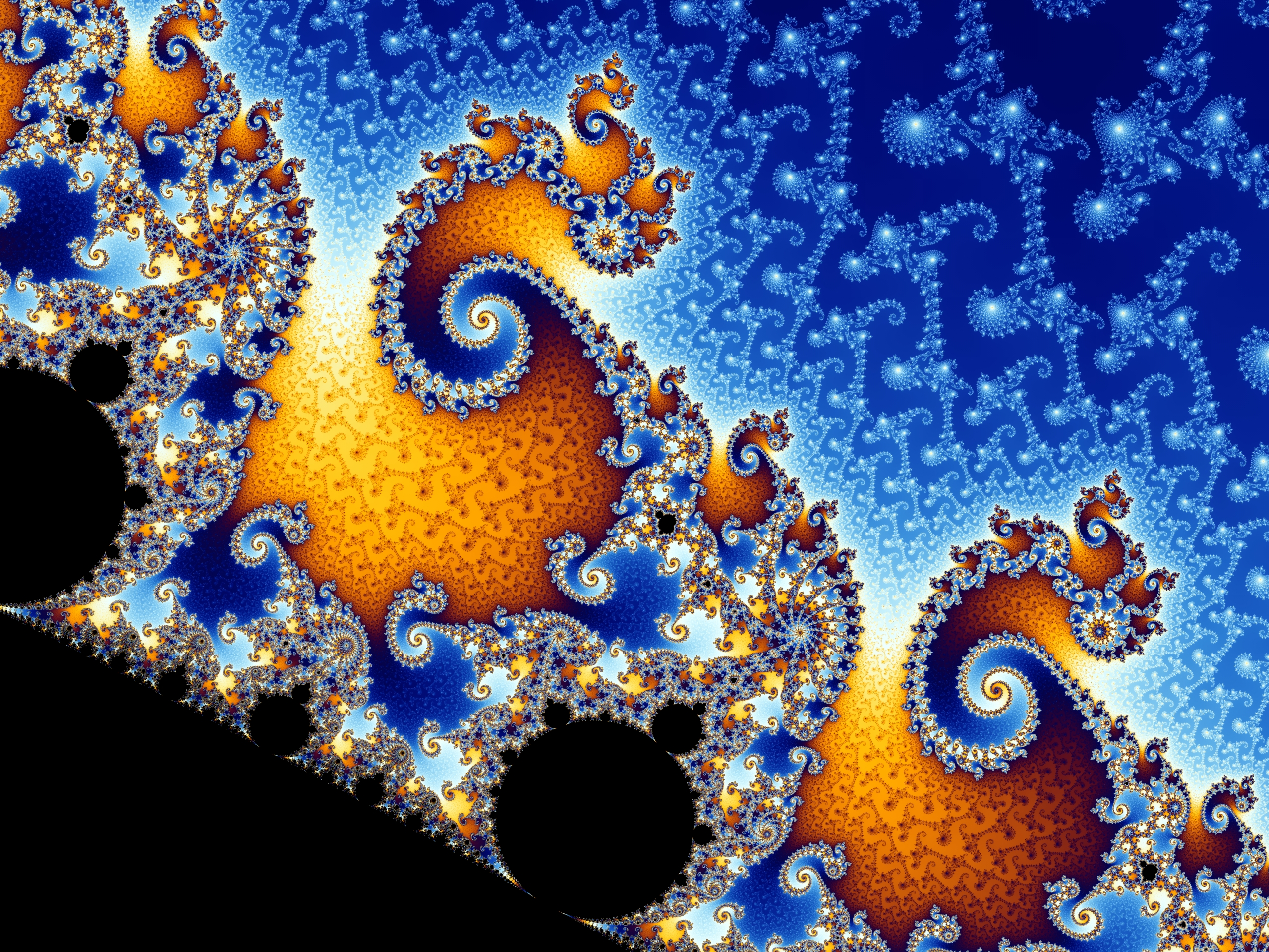 Partial view of the Mandelbrot set. Step 4 of a zoom sequence: The central endpoint of the "seahorse tail" is also a Misiurewicz point. Coordinates of the center: Re(c) = -.743,566,9, Im(c) = . 131,402,3 Horizontal diameter of the image: .002,287,8 Magnification relative to the initial image: 1,344.9 Created by Wolfgang Beyer with the program Ultra Fractal 3. Uploaded by the creator.